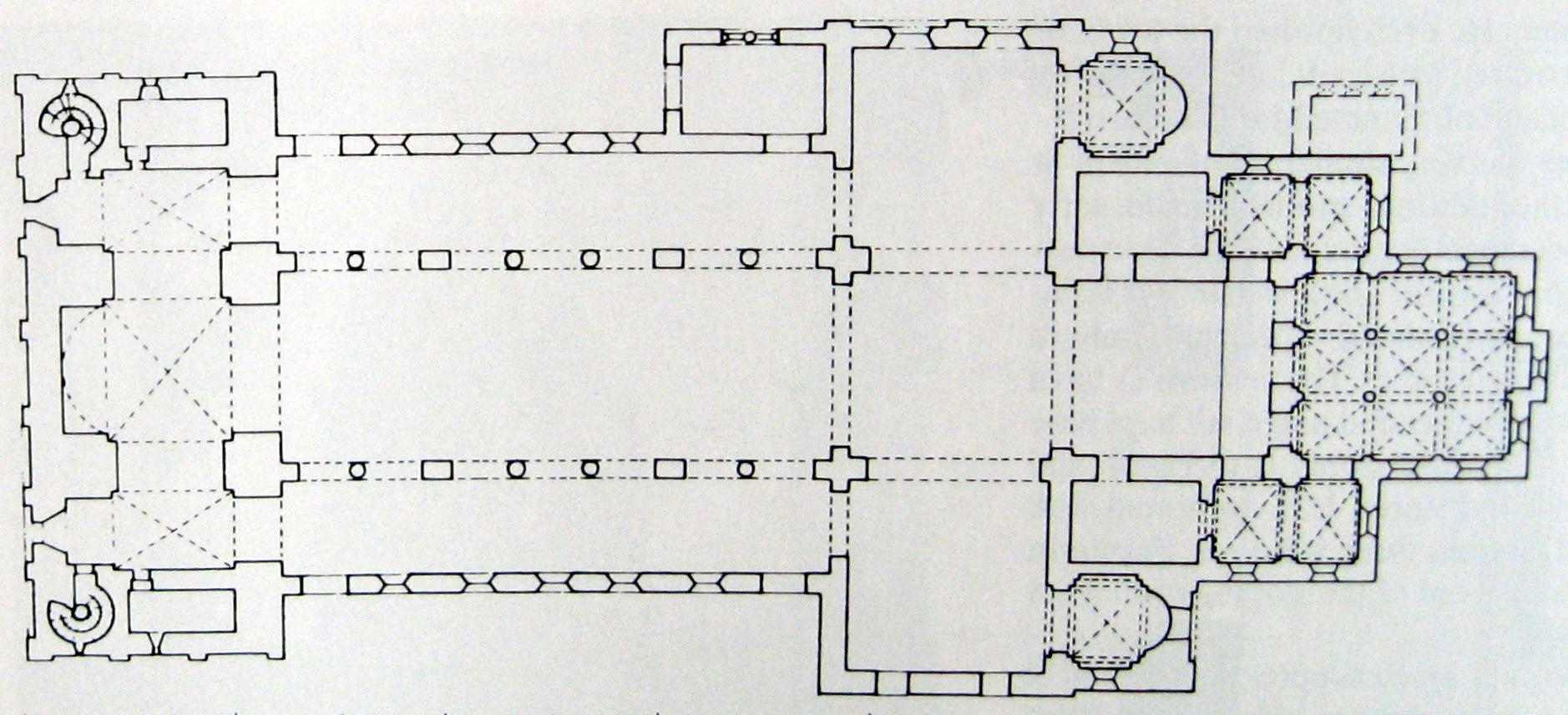 Floorplan of the Saint-Barthélemy in Liege